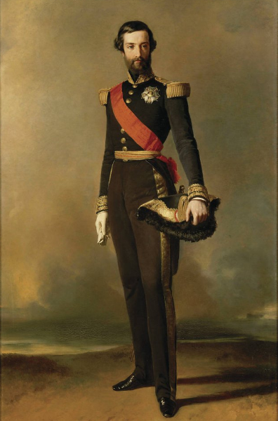 Francisco Fernando